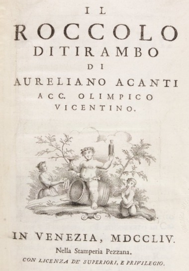 Cover page of "Il Roccolo Ditirambo"